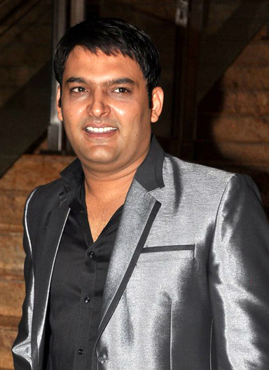 Kapil Sharma at the launch of Jai Maharashtra channel